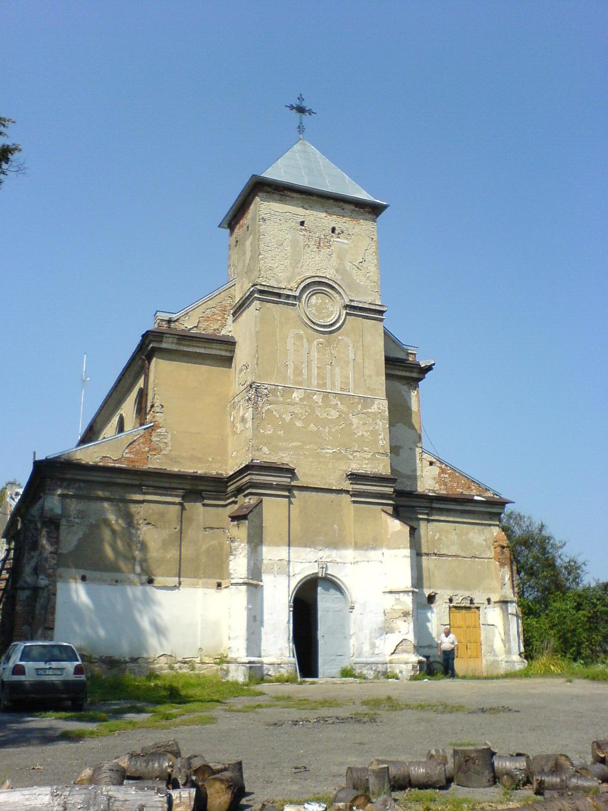 Catholic Church in Jezupol